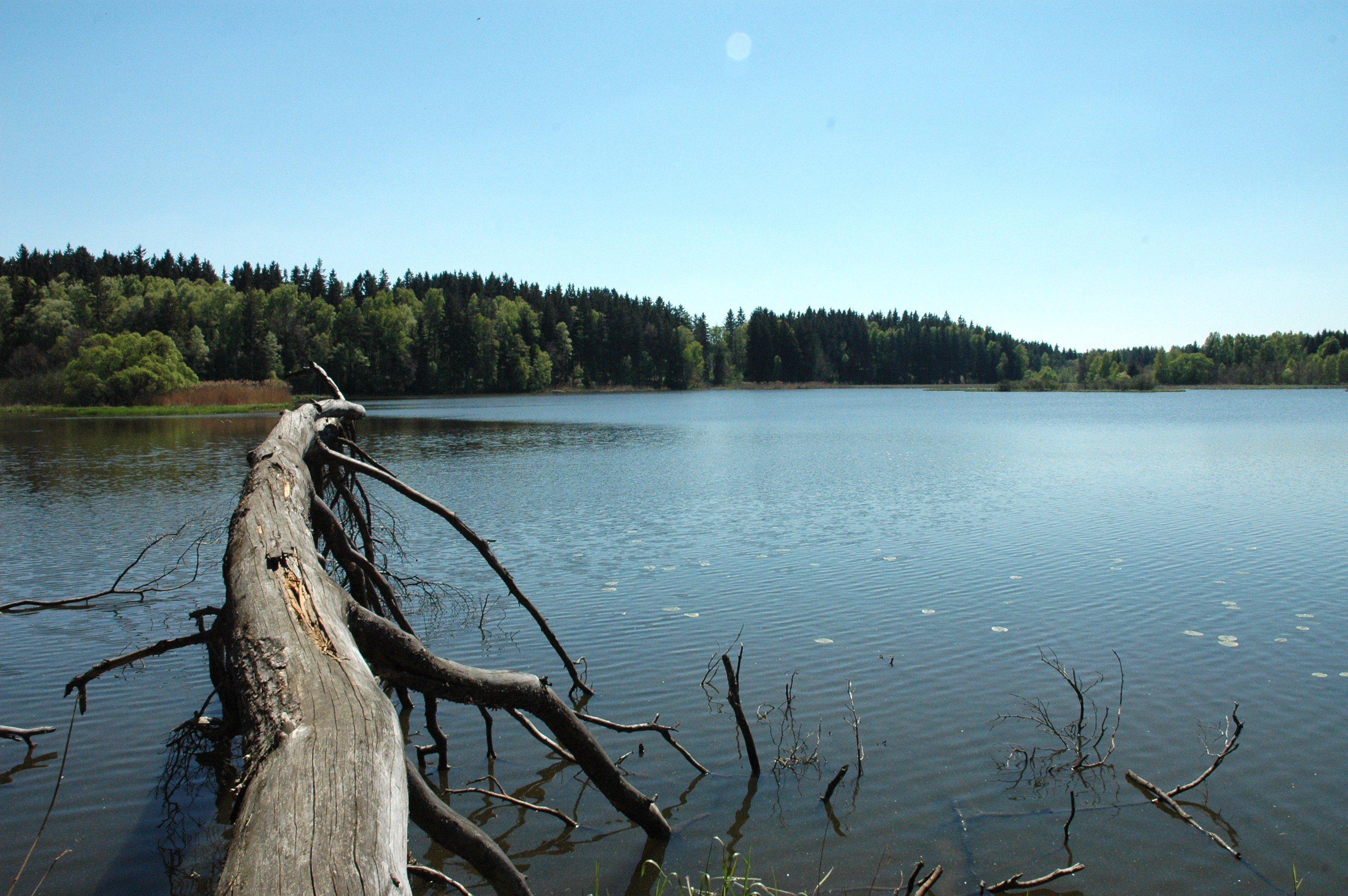 Natural monument Zadní rybník in Chrudim District, part of CHKO Žďárské vrchy, Czech Republic